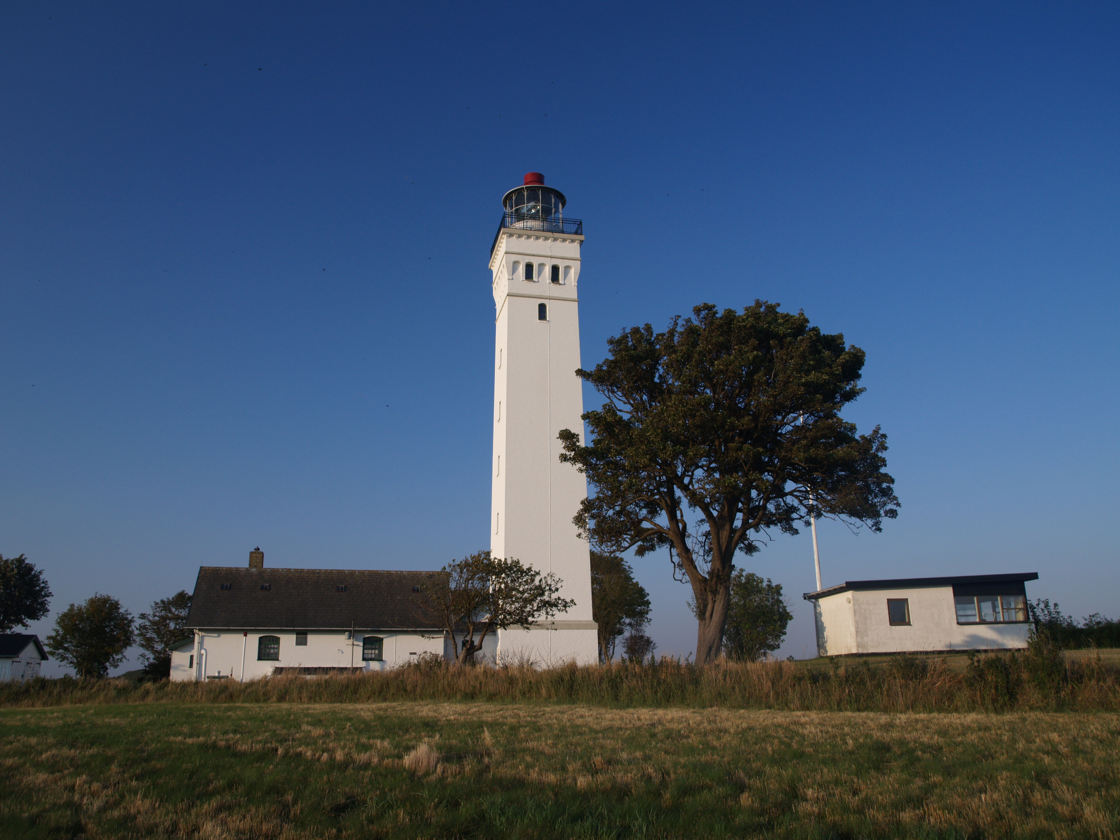 Keldsnor lighthouse on Langeland island, Denmark